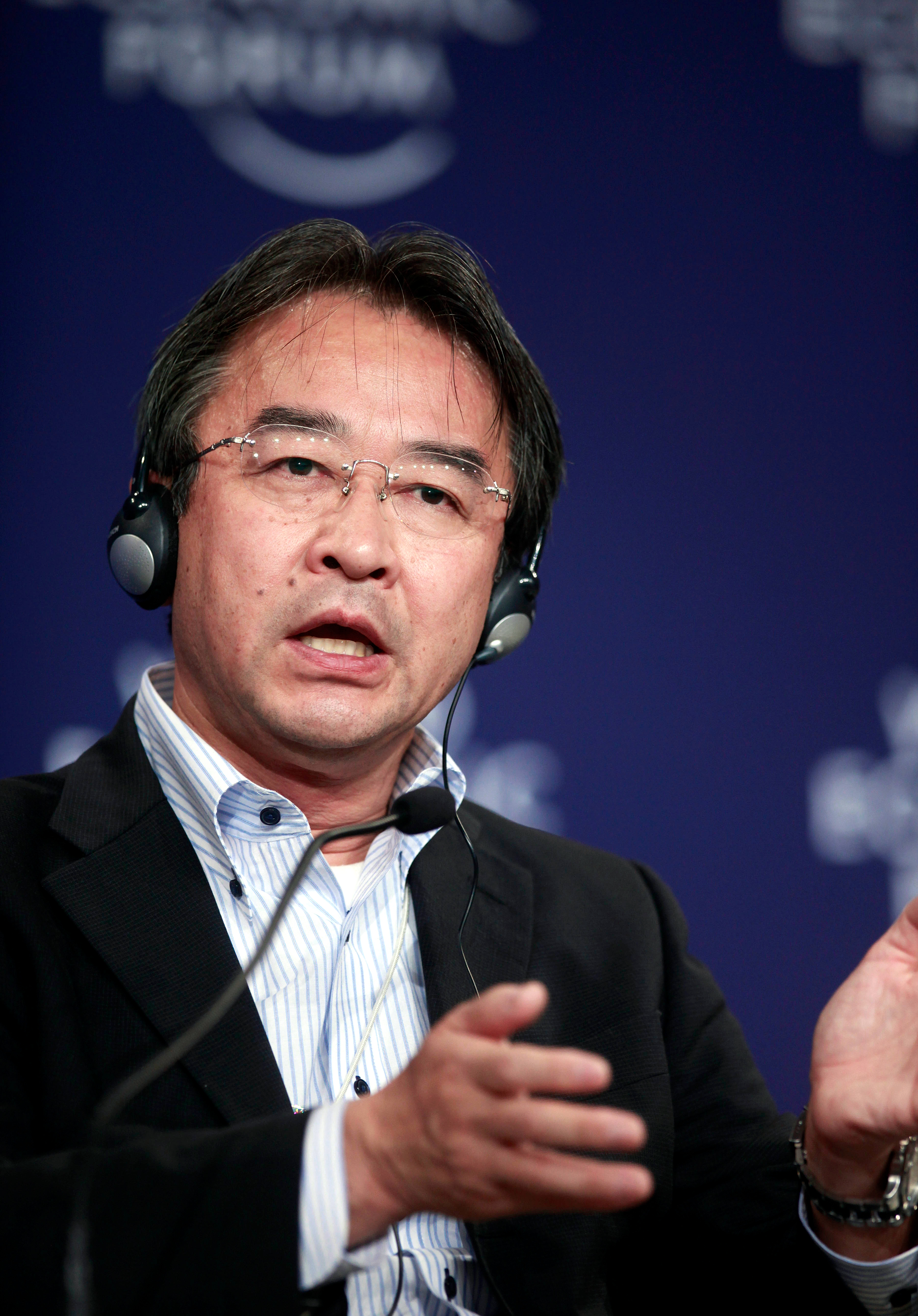 Shōichi Kondō, Senior Vice-Minister of the Environment, spoke about the "Charting a Low-carbon Route to Growth" at the Annual Meeting of the New Champions of the World Economic Forum in Dalian City, Liaoning Province on September 14, 2011.